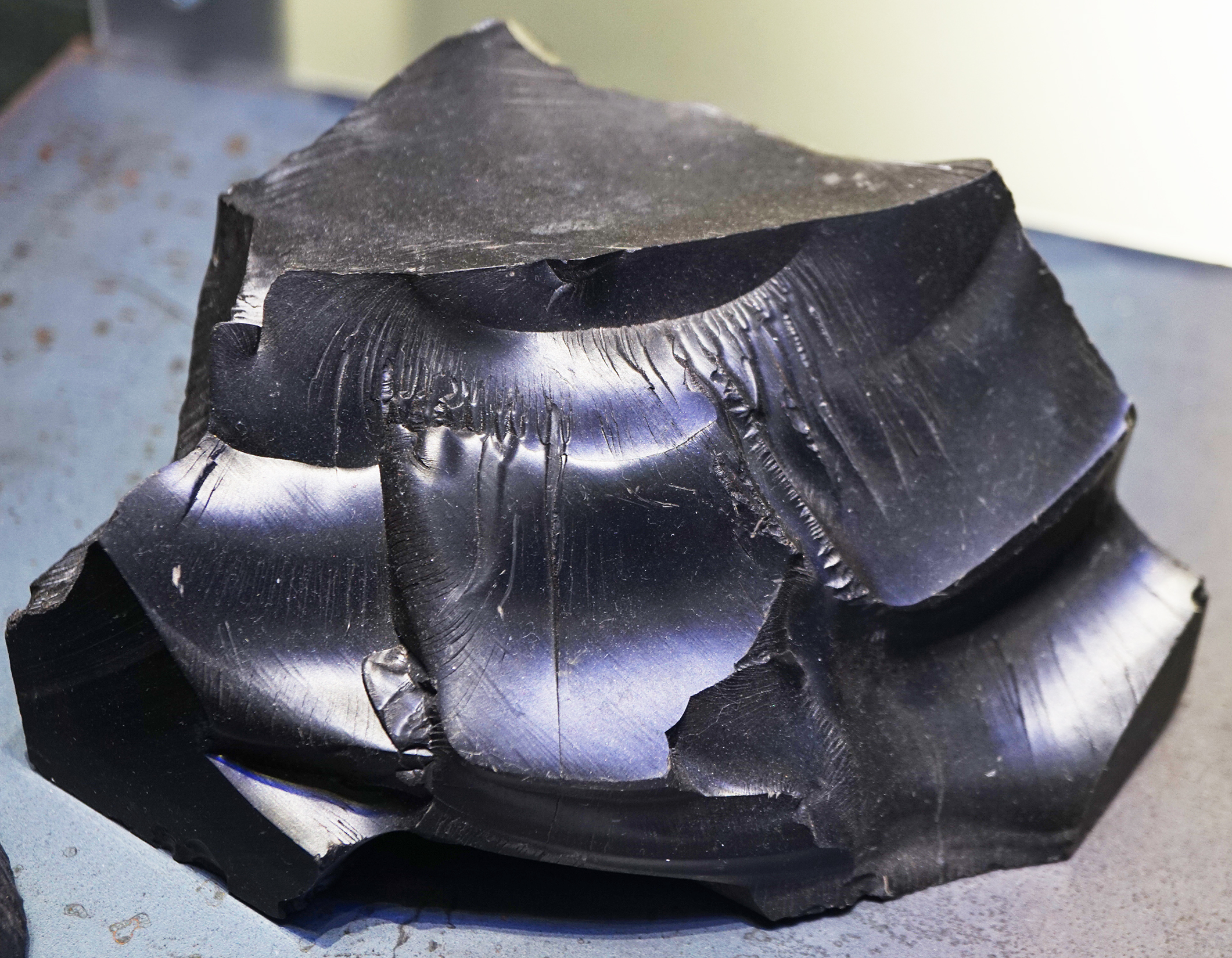 Jet lignite in Tampere Mineral Museum.